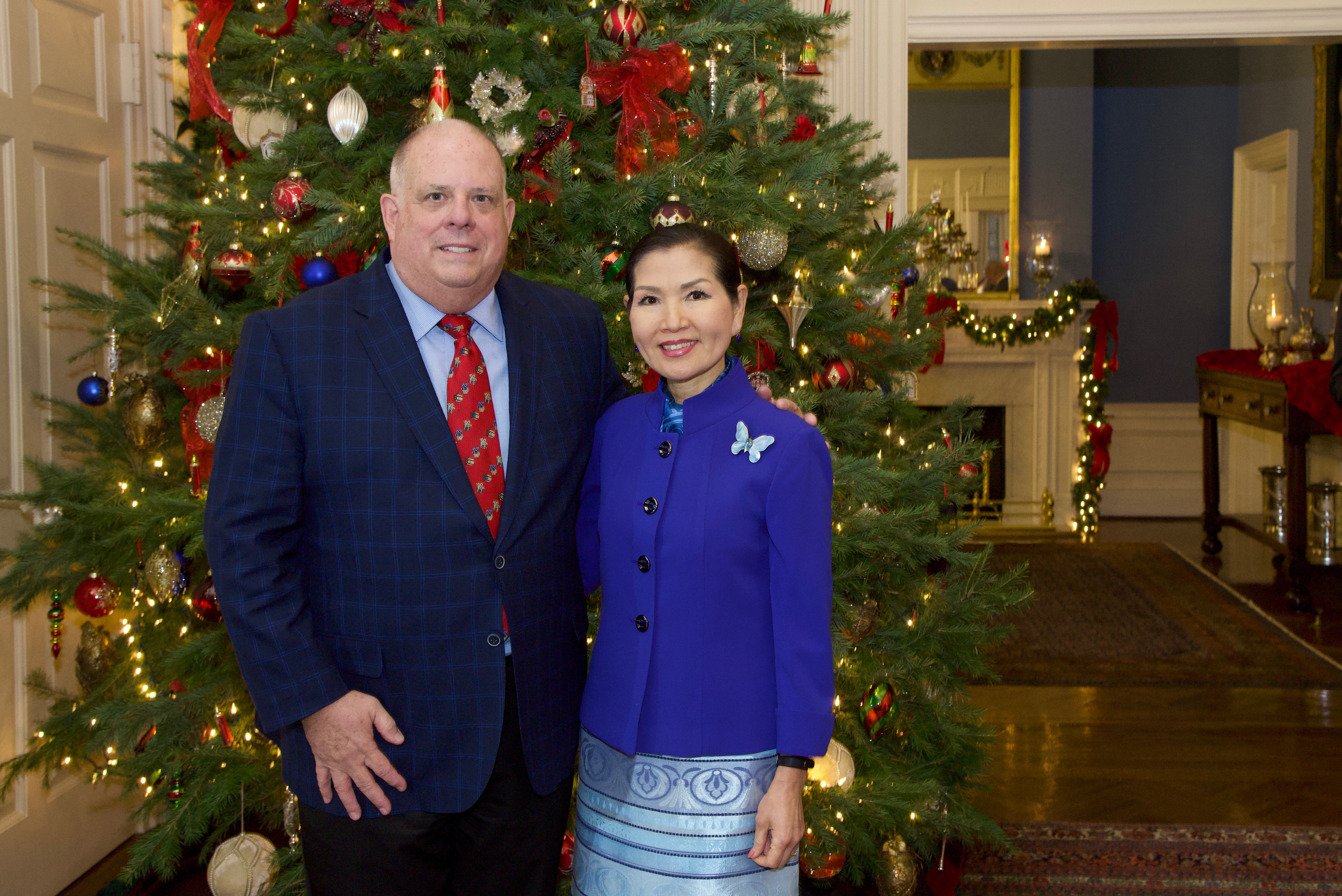 Governor Hogan and First Lady Yumi Hogan Host an Open House for State Employees by Richard Lippenholz, Joe Andrucyk at Government House, 100 State Circle, Annapolis MD 21401.